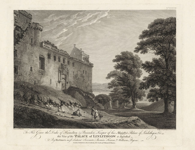 PALACE of LINLITHGOW